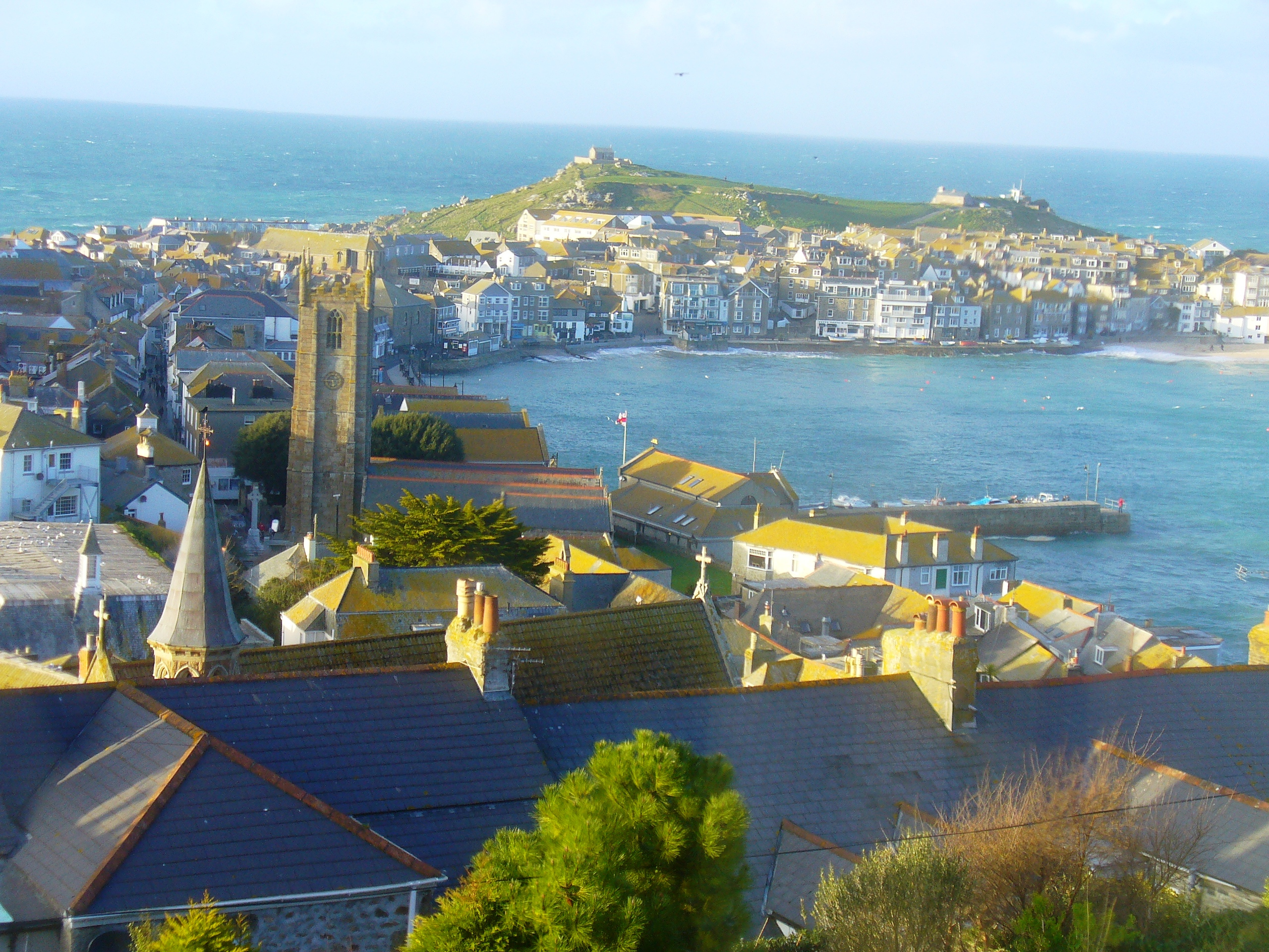 St Ives, Cornwall